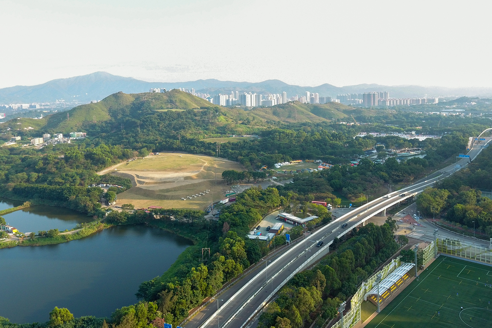 Tin Shui Wai illegal waste dump